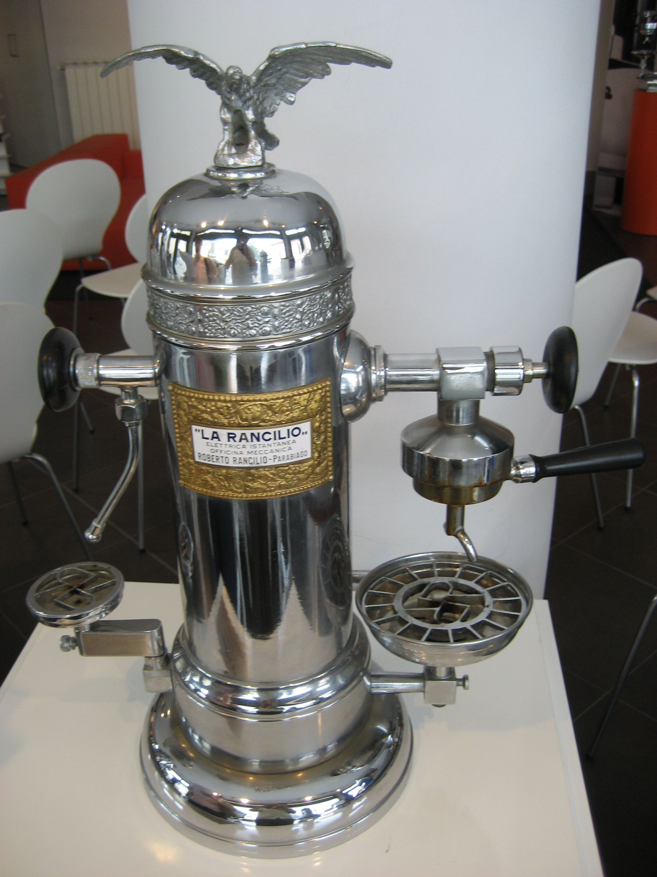 Picture taken during my trip to Officina Rancilio in Parabiago (Milan). More information is available at their website